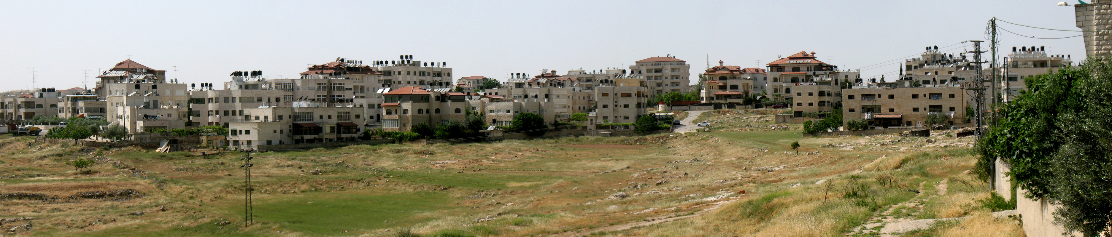 Shuafat neighborhood panorama, Jerusalem, Israel. View from the French Hill (HaGiv'a HaTzarfatit).